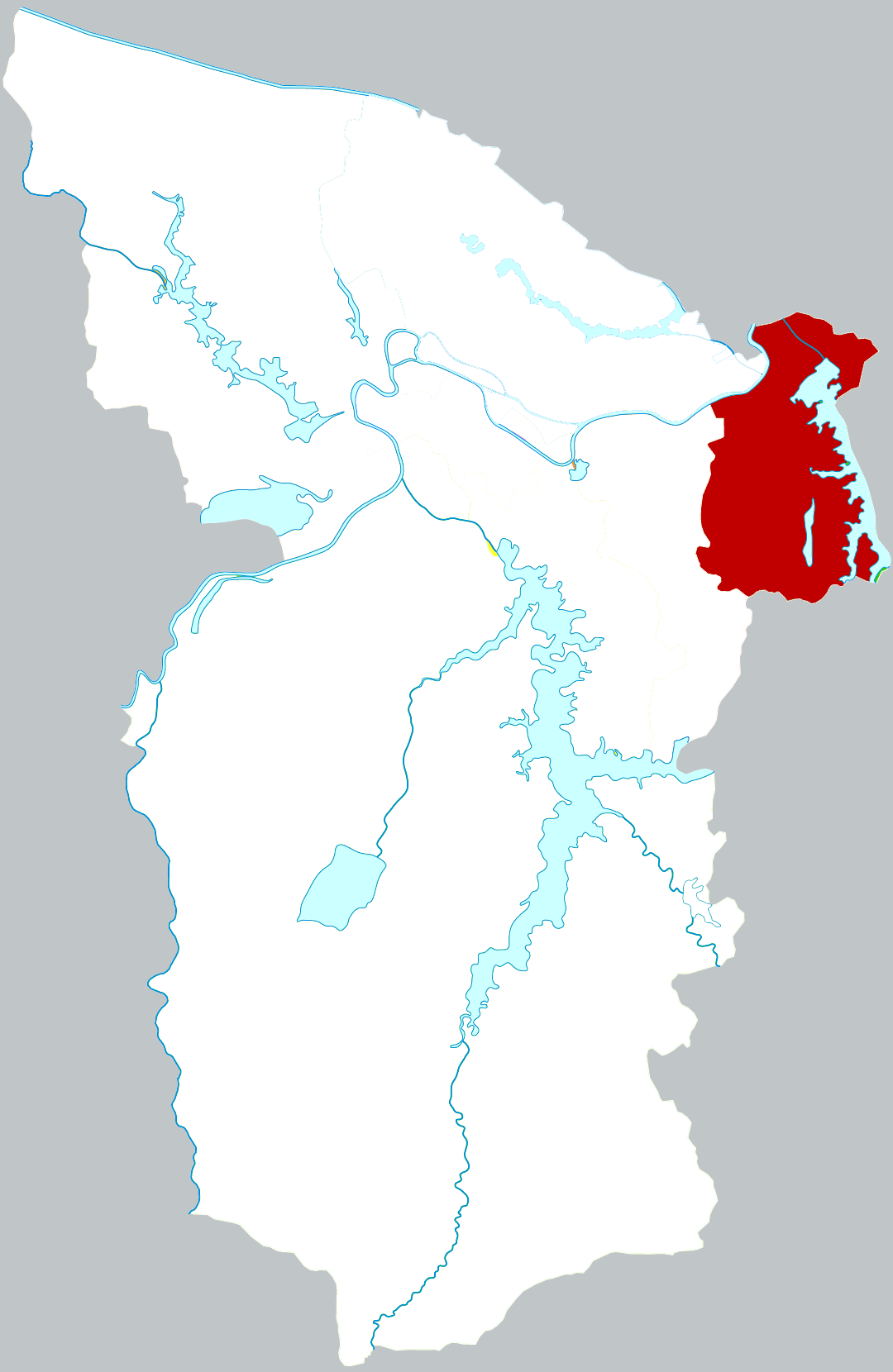 Location of Datong district in Huainan city, China